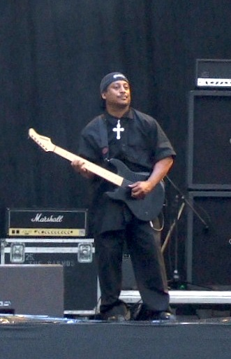 Believed to be Ernie C from the band Body Count.